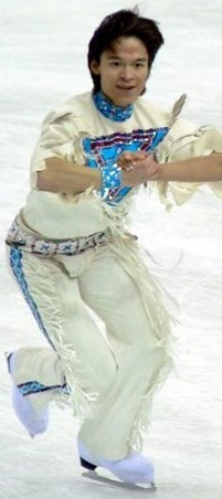 Christina Beier and William Beier at the 2005 European Figure Skating Championships